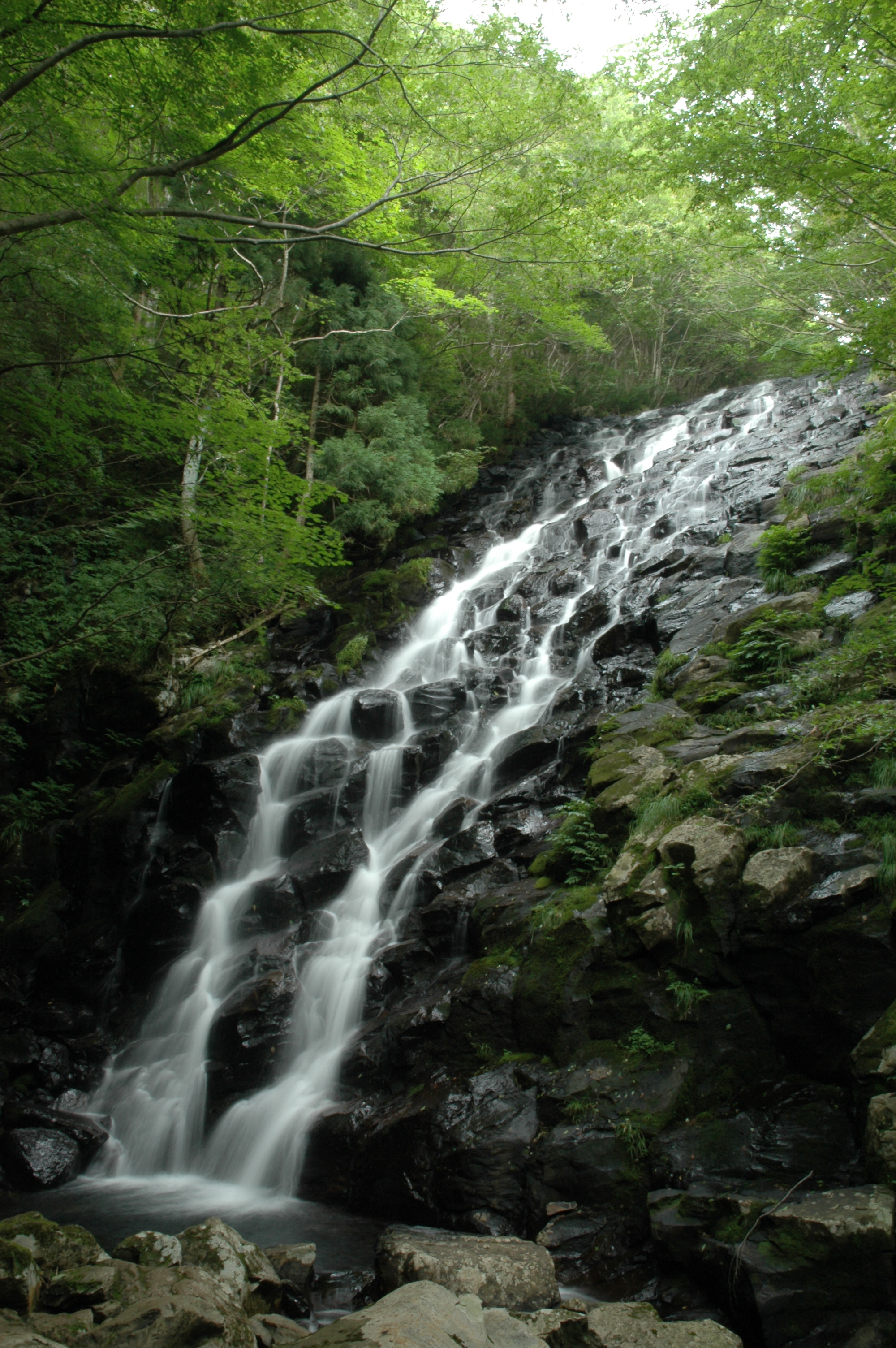 Nondaki is a waterfall in Tsuyama, Okayama, Japan